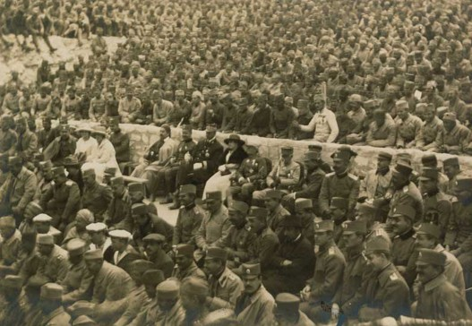 Admiral Geprat to play "Ivkova slava", Serbian theater in Africa from 1916 to 1919. Srpski (latinica): Admiral Geprat na predstavi "Ivkova slava" Srpskog vojničkog logorskog pozorišta "Afrika" u Lazuazu (1916-1919).